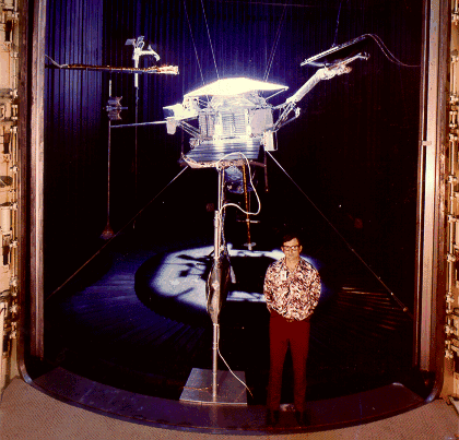 Mariner 10 in JPLs 25-foot space simulator Photograph Number 251-123B